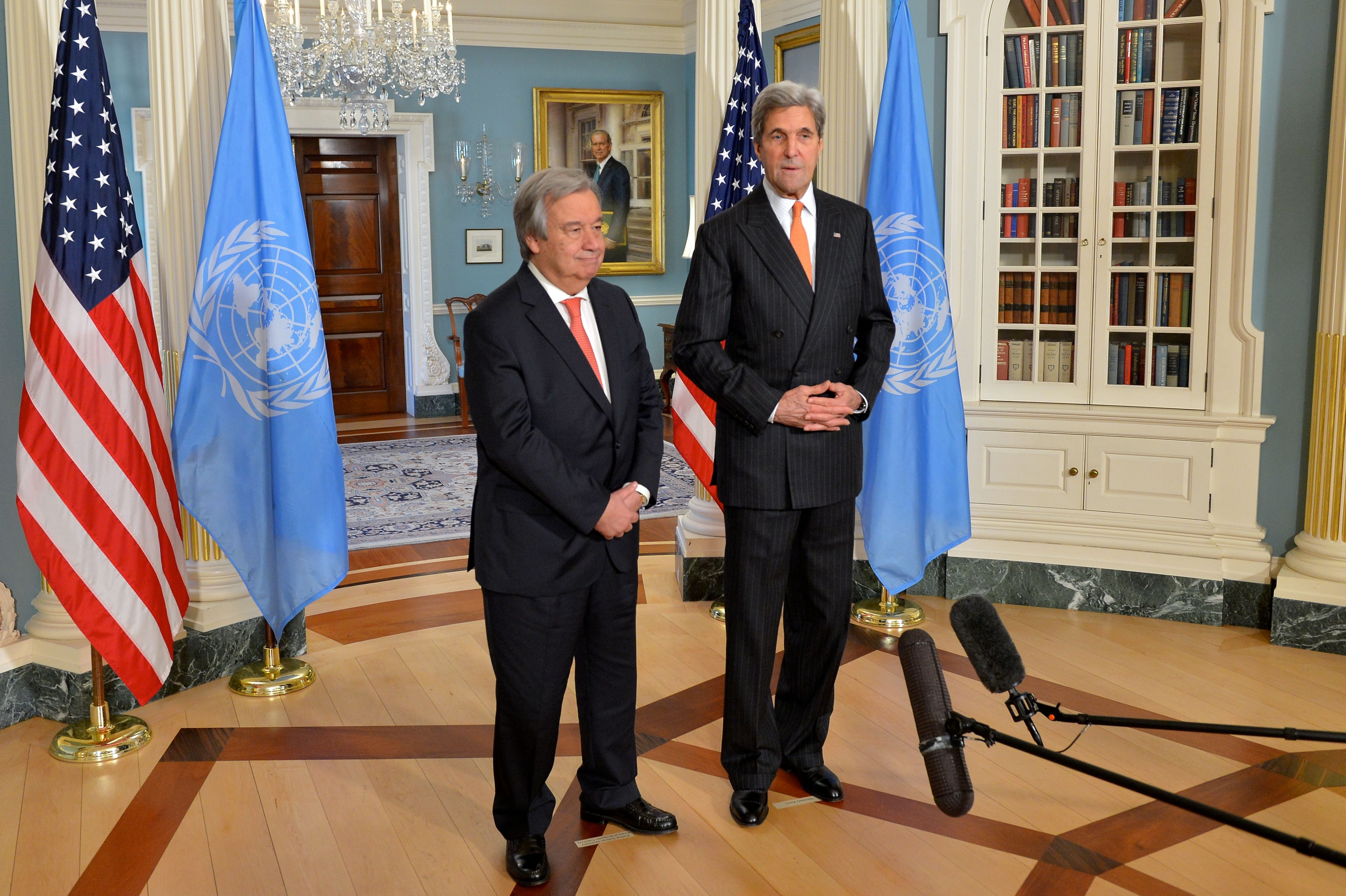 U.S. Secretary of State John Kerry and UN Secretary-General-designate Antonio Guterres address reporters at the U.S. Department of State in Washington, D.C., on November 4, 2016. [State Department photo/ Public Domain]